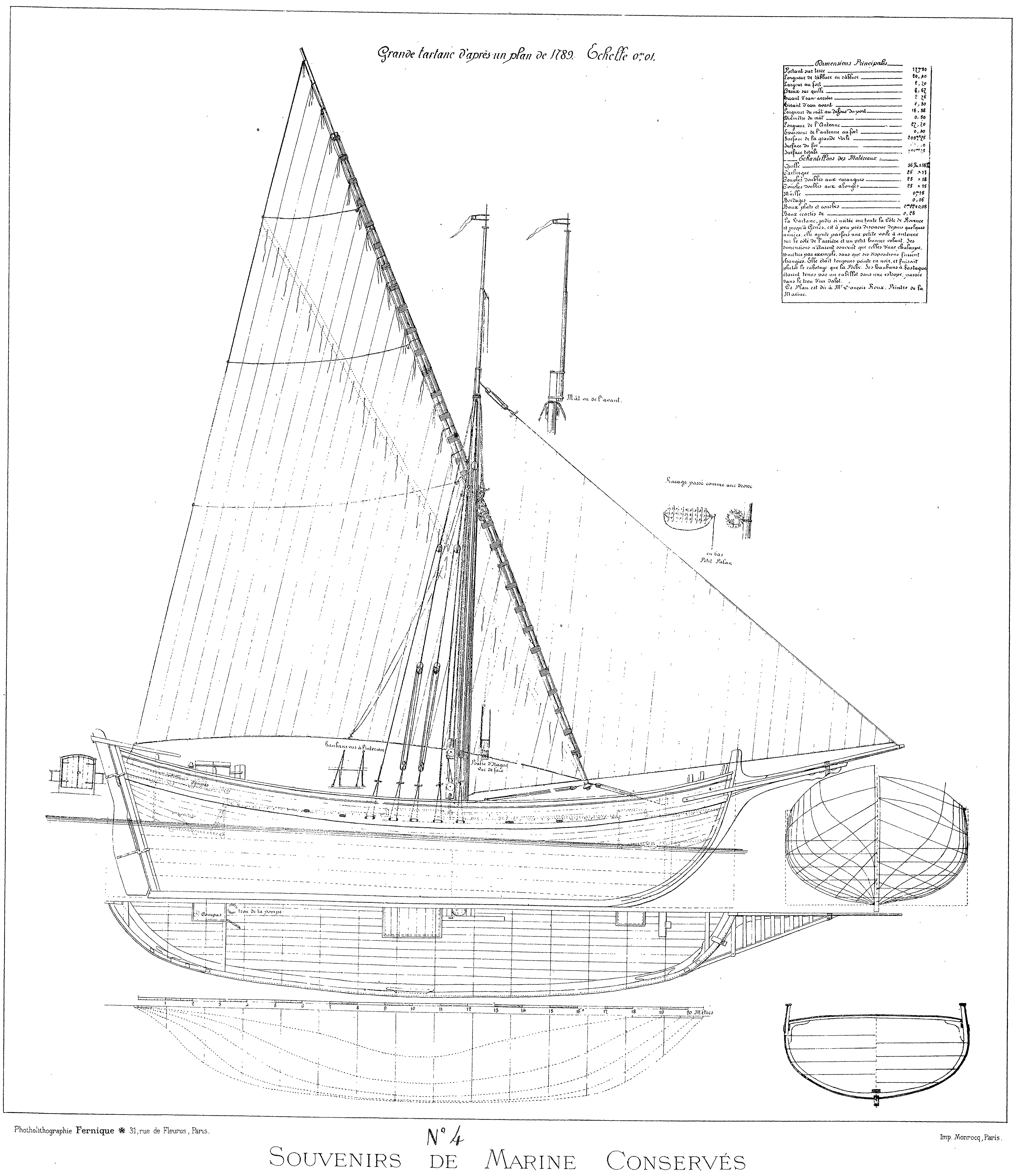 Tartane from "François-Edmond Pâris. Souvenirs de marine conservés, ou Collection de plans de navires de guerre et de commerce et de bateaux divers de tous les pays tracés par les constructeurs ou marins… recueillis et publiés par l'amiral Pâris, album, Paris, 1879." №4 (p.5). Original image